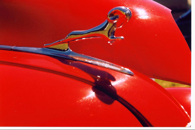 Image of the hood of a Dodge automobile at the New England Summer Nationals in Worcester, Massachusetts.